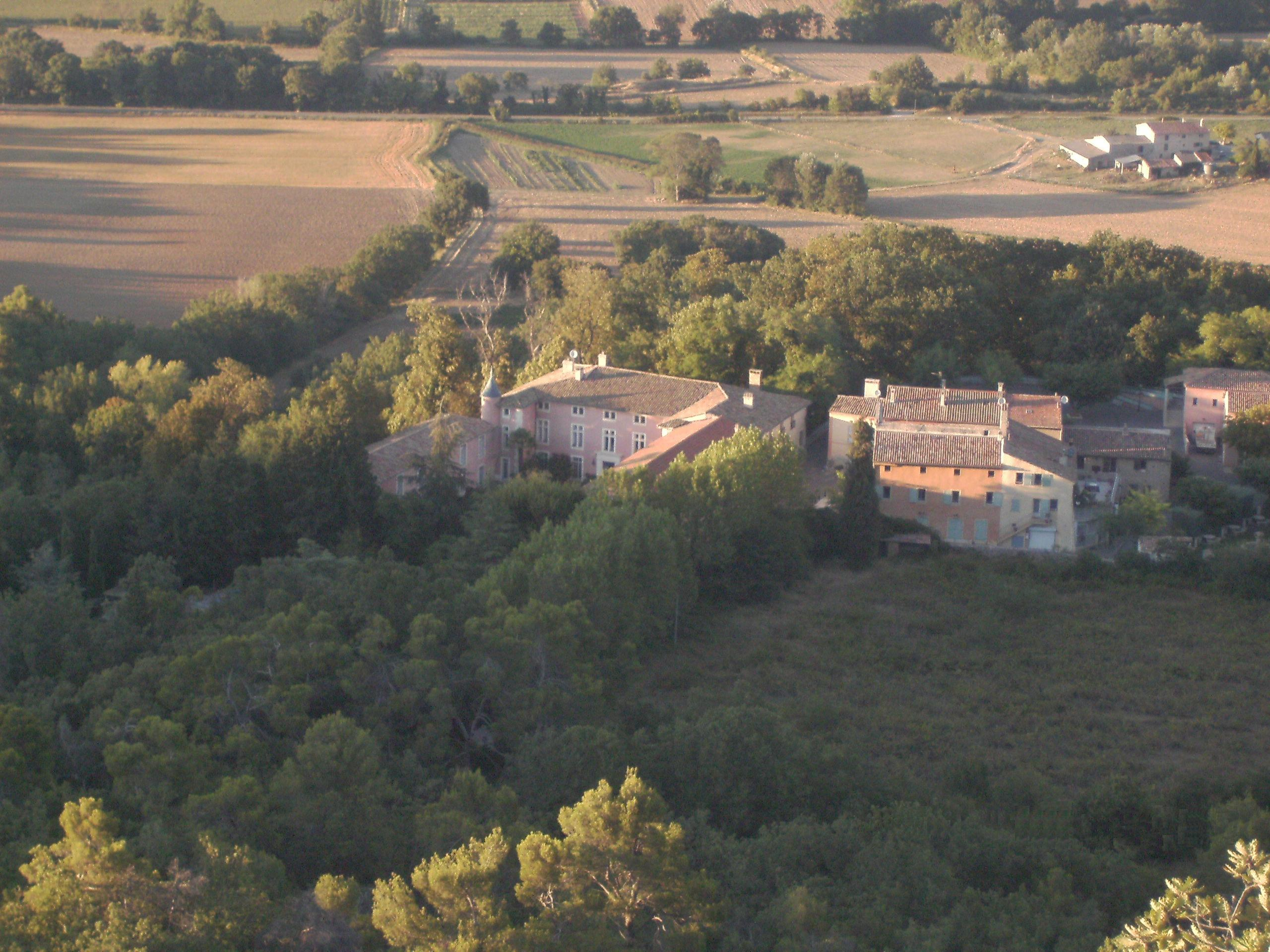 Artigues, village Aragonés: Village d'Artigues